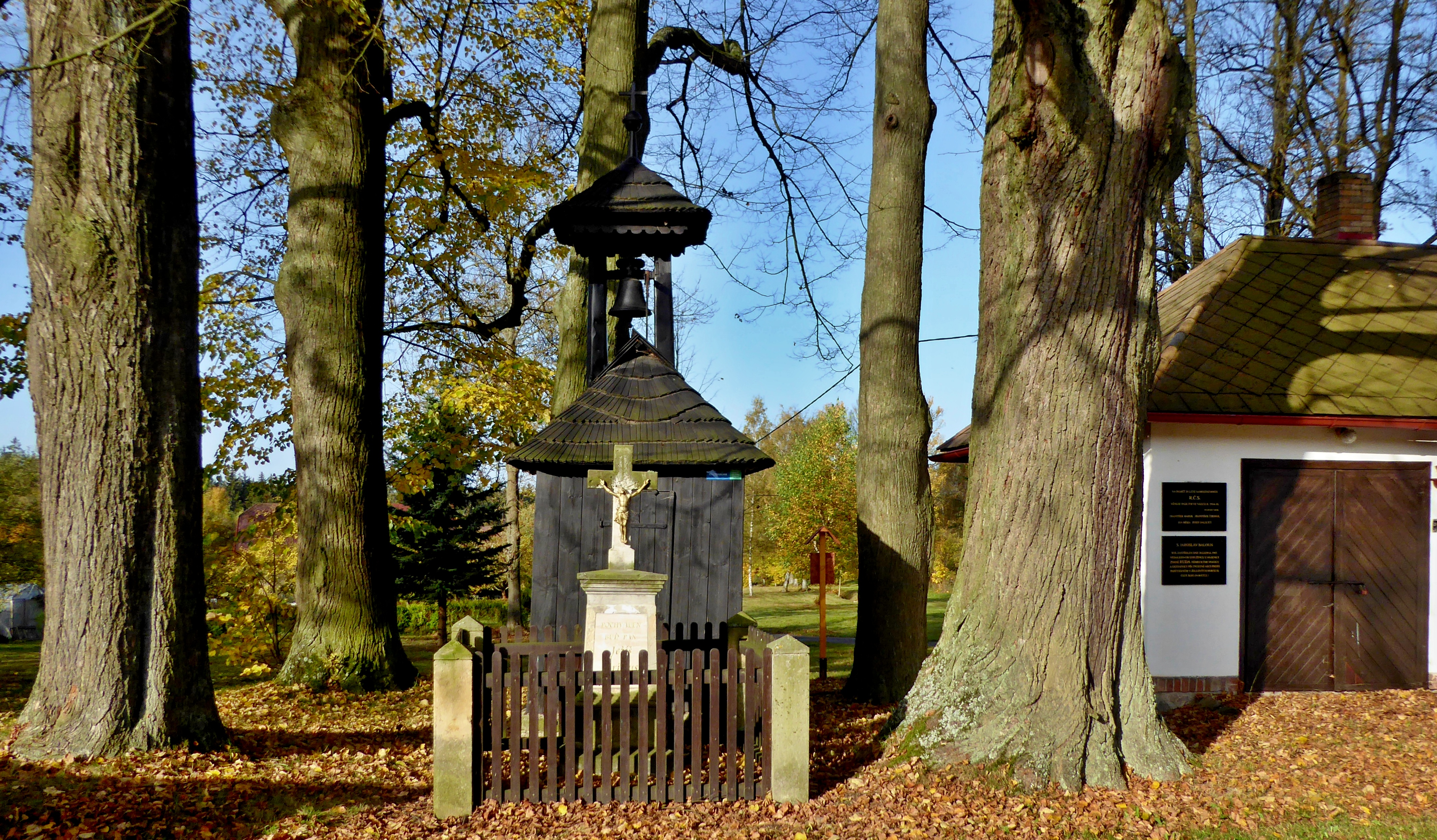 Under a group of memorable trees (five of tree - lindens) small wooden bell tower, a small sacral structure (God's torment) and fire station (two commemorative plaques) in the small hamlet with name "Stružinec". "Stružinec" is settlement locality the type of hamlet and the name of cadastral territory 411,2323 ha with an area of approximately 546-621 m in the landscape of the Iron Mountains, within the administrative division also part of the town "Ždírec nad Doubravou" in the district of "Havlíčkův Brod" belonging to the Vysočina Region in the territory of the Czech Republic. The hamlet (centre about 590 meters above sea level) lies on the slope north-northwest of the peak with the geographical name Barchanec (624 m above sea level), above the valley with of brook "Barchanecký" (left-hand inflow of brook "Slubice"). The lowest point of the cadastral area is the brook level "Slubice" (546 m), approximately at a distance of 200 m above the confluence with brook "Barchanecký". From the name of the hamlet is derives the indicate of the geomorphological district with name "Stružinecká" knoll hill. Photo location: Czechia, Vysočina Region, town Ždírec nad Doubravou, "Stružinec" – settlement locality.